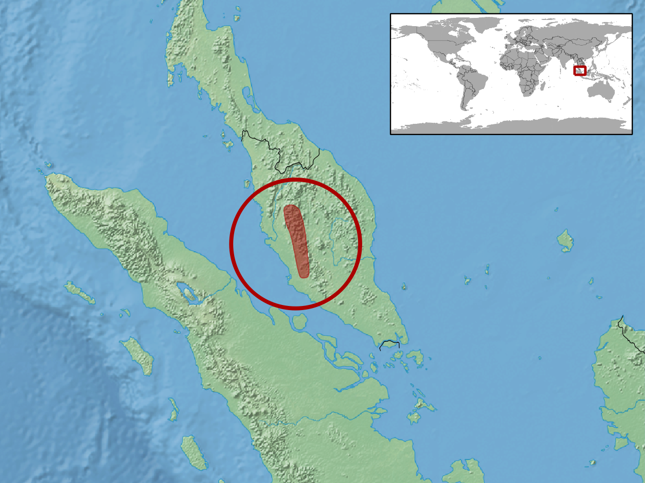 geographic distribution of Gehyra butleri (Native: Malaysia (Peninsular Malaysia))